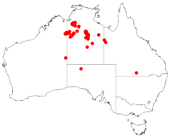 Scaevola laciniata occurrence data downloaded from Australasian Virtual Herbarium 12 May 2019